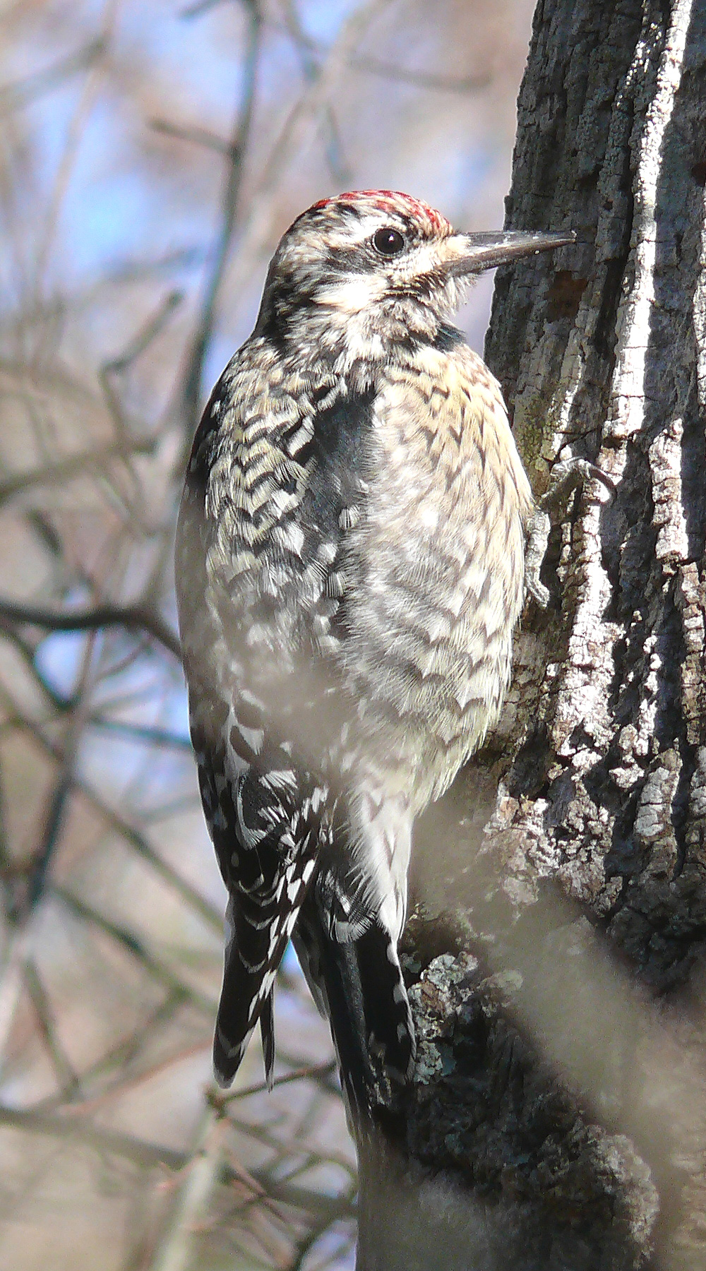 A female Yellow-bellied Sapsucker (Sphyrapicus varius) going through her first "winter molt", when juvenile Sapsuckers develop adult plumage. Photo taken with a Panasonic Lumix DMC-FZ50 in Johnston County, North Carolina, USA.